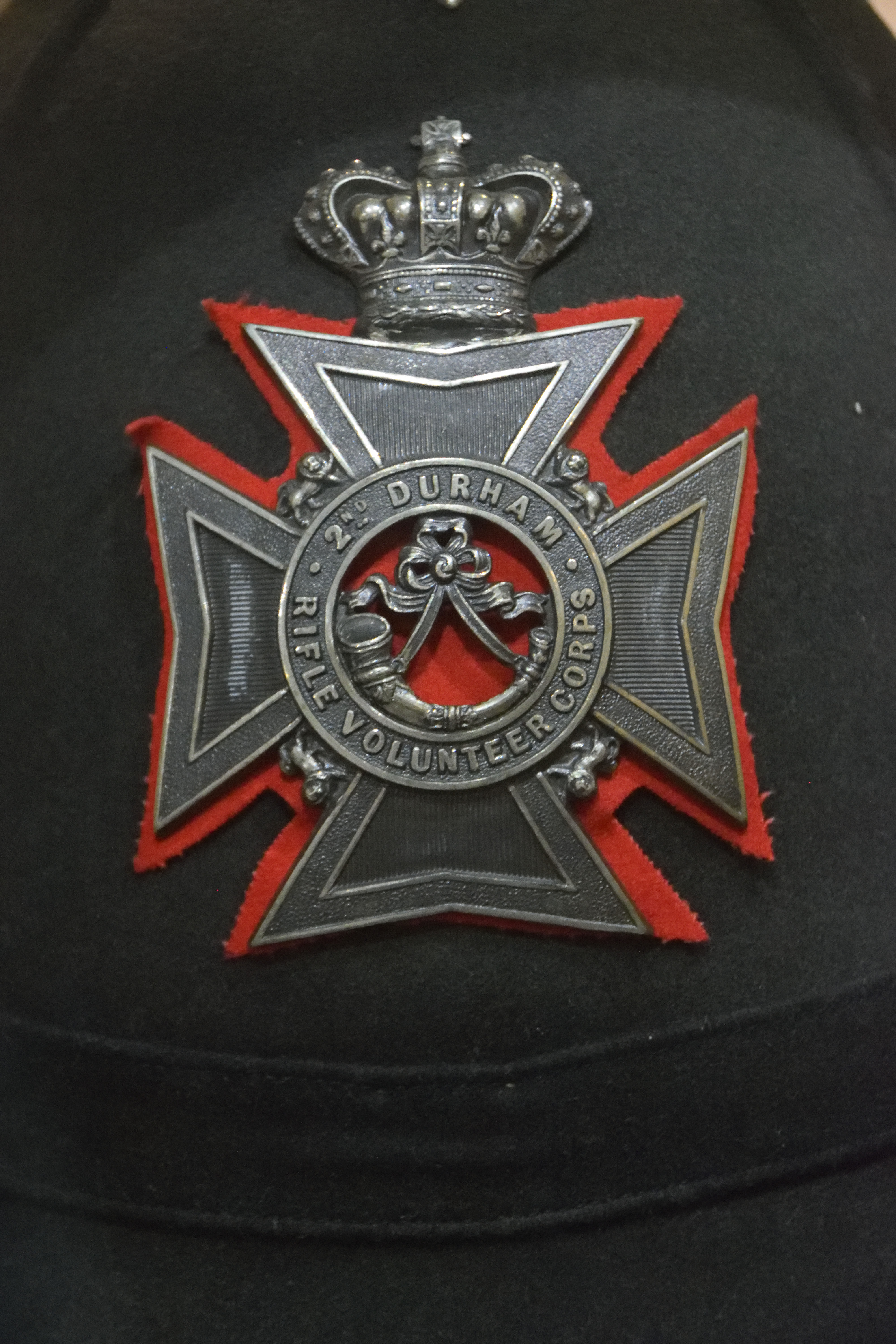 Helmet badge of the 2nd Durham Rifle Volunteer Corps, pre 1881 from the Durham Light Infantry museum